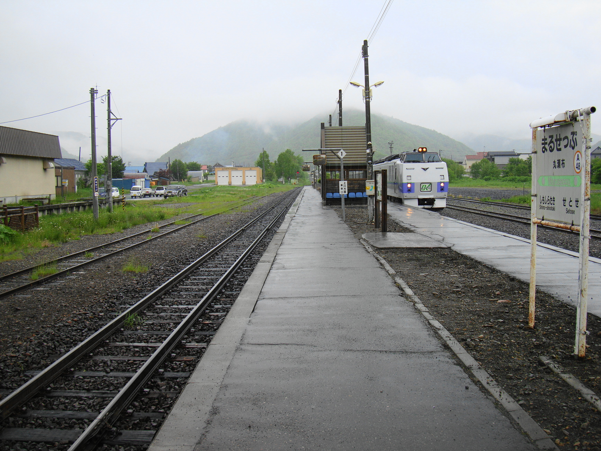 Maruseppu Station